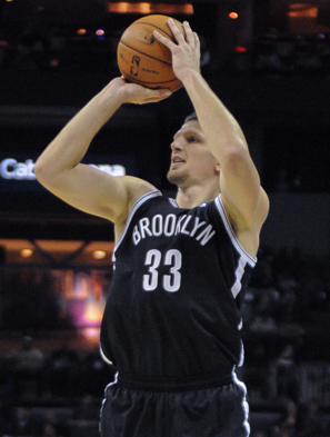 Brooklyn Nets' Mirza Teletović prepares to shoot the ball.